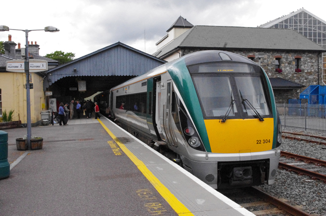 Train at Killarney Station. A 22000 class diesel multiple unit waits at Platform 1, bound for Tralee.